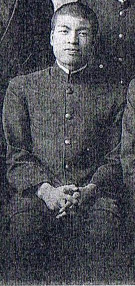 Rev.OKADA Minoru